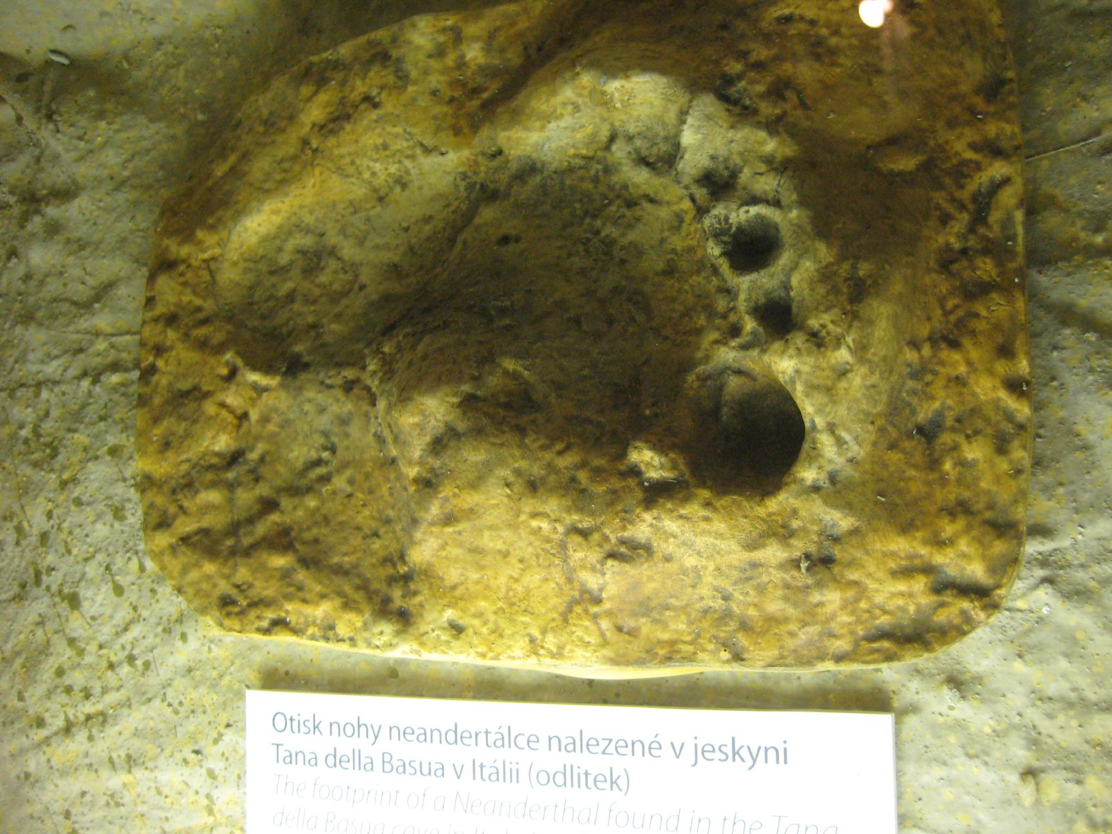 Footprint (mislabelled as belonging to a Neanderthal) from Bàsura Cave, Italy, dating to 14,000 years ago[1]